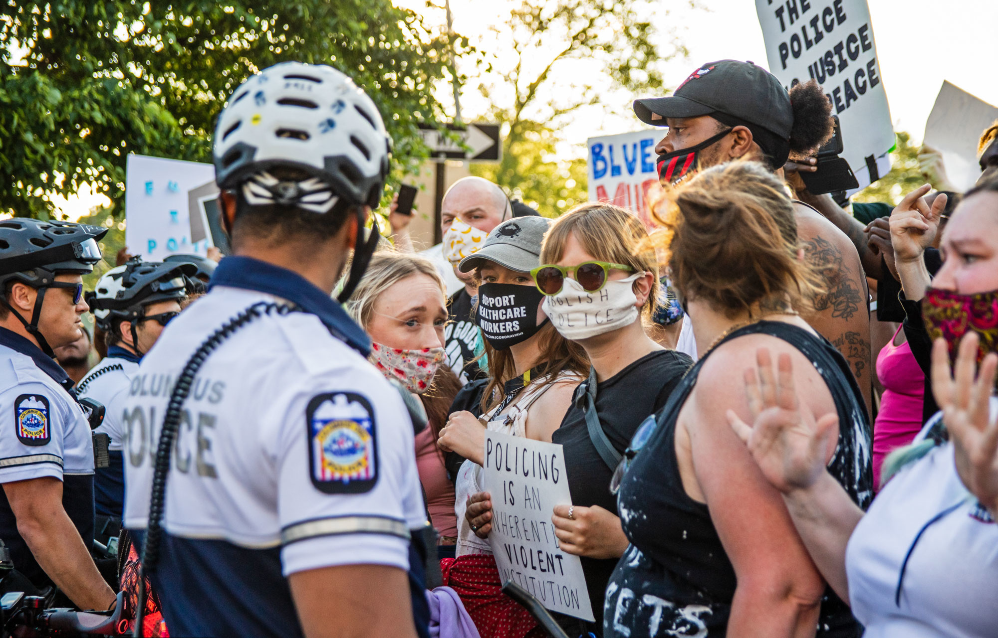 George Floyd protest, 2020-05-28, Columbus, Ohio.